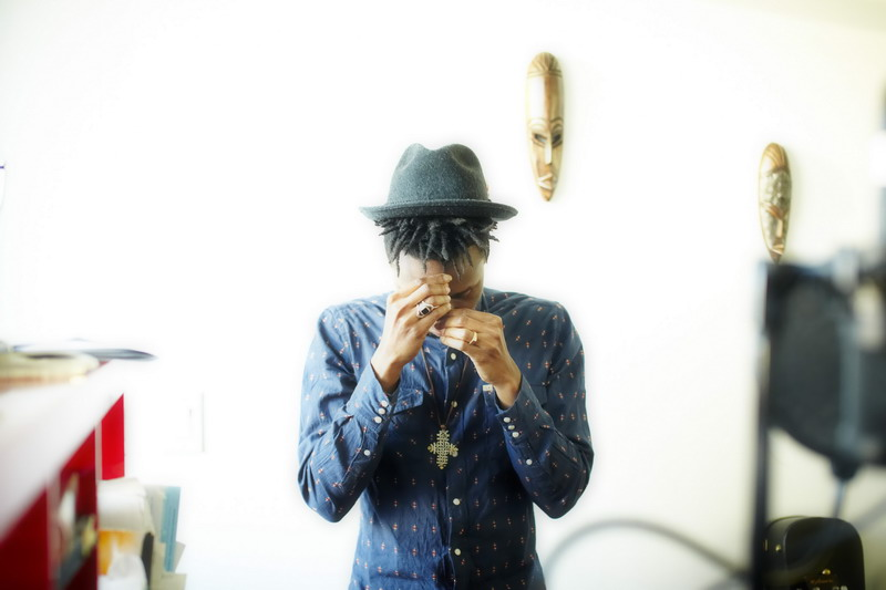 Kae-Sun-Photograph-by-David-Waldman